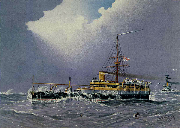 The second and final Conqueror-class battleship, served in the Victorian Royal Navy The Royal Museums Greenwich describes this as H.M.S. Hero 2nd class battleship (Repro ID PAD6297) Read more at RMG mem